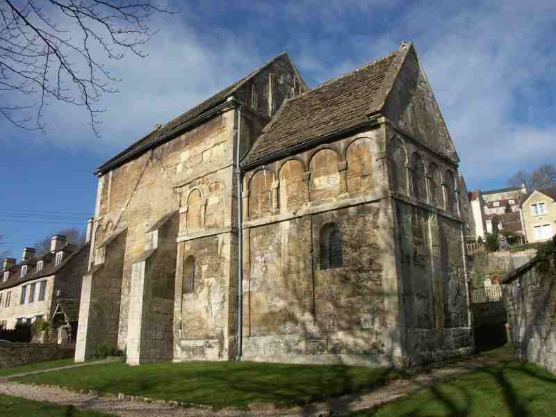 St. Lawrence, Bradford on Avon, England